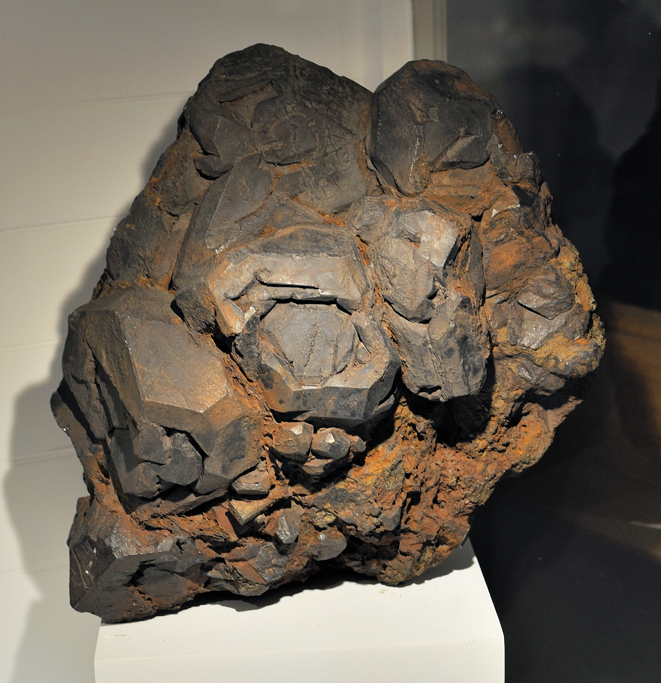 Harvard Museum of Natural History. Ilmenite. Arendal, Aust-Agder, Norway.